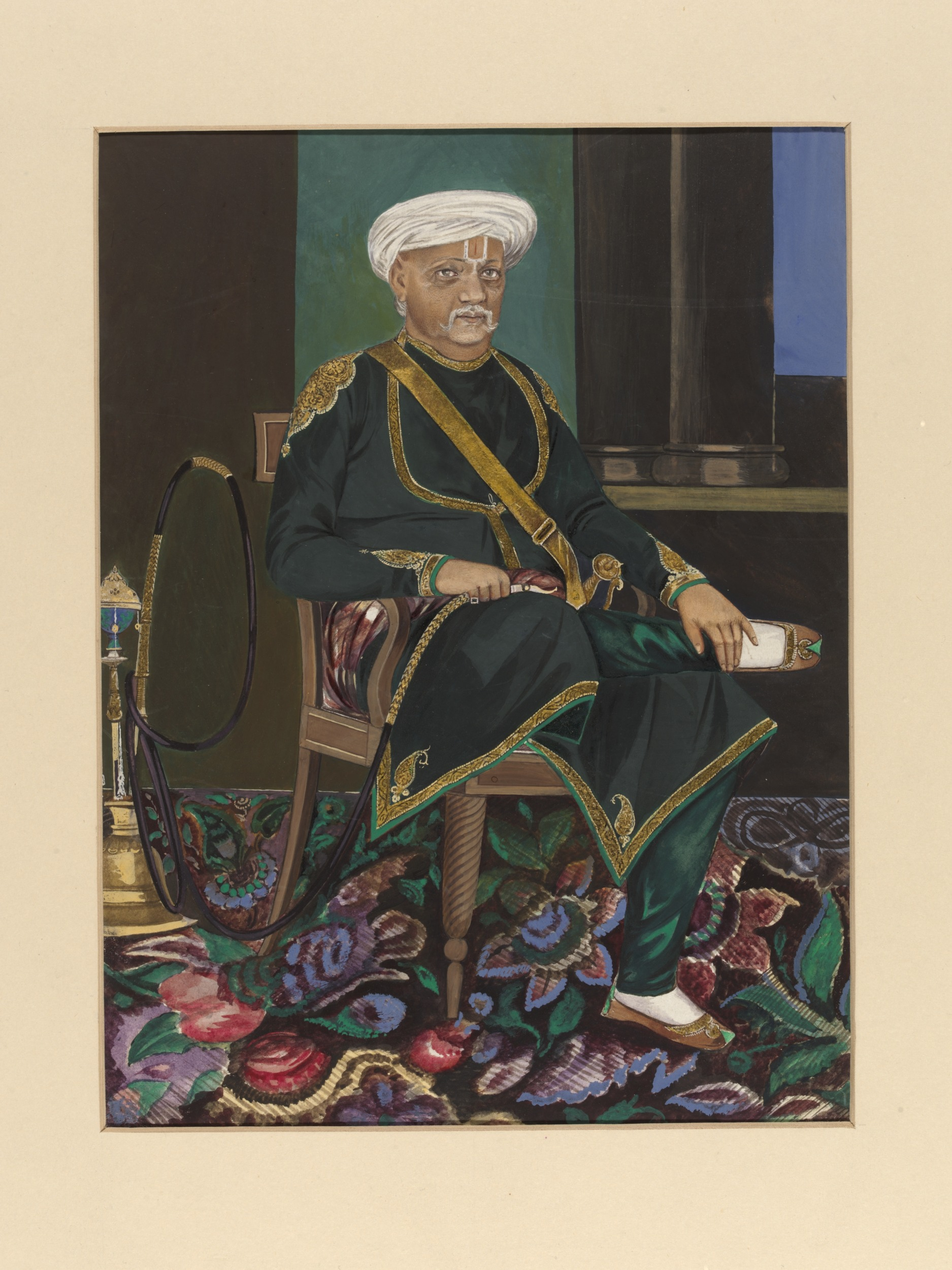 This Company Painting is a portrait of Thakur Bhoj Raj Singh seated on a European chair holding the mouthpiece of a huqqa. It was drawn by an artist named Gopal at Agra in 1874 and bears a label on both the front and back giving the price as £4; it was acquired by the India Museum soon afterwards and transferred to the South Kensington Museum (now the V&A) in 1879. 'Thakur' is the title given to the son of a Rajput ruler who is deceased, but biographical details of the sitter have not been traced. 'Company paintings' were produced by Indian artists for Europeans living and working in the Indian subcontinent, especially British employees of the East India Company. They represent a fusion of traditional Indian artistic styles with conventions and technical features borrowed from western art. Some Company paintings were specially commissioned, while others were virtually mass-produced and could be purchased in bazaars.